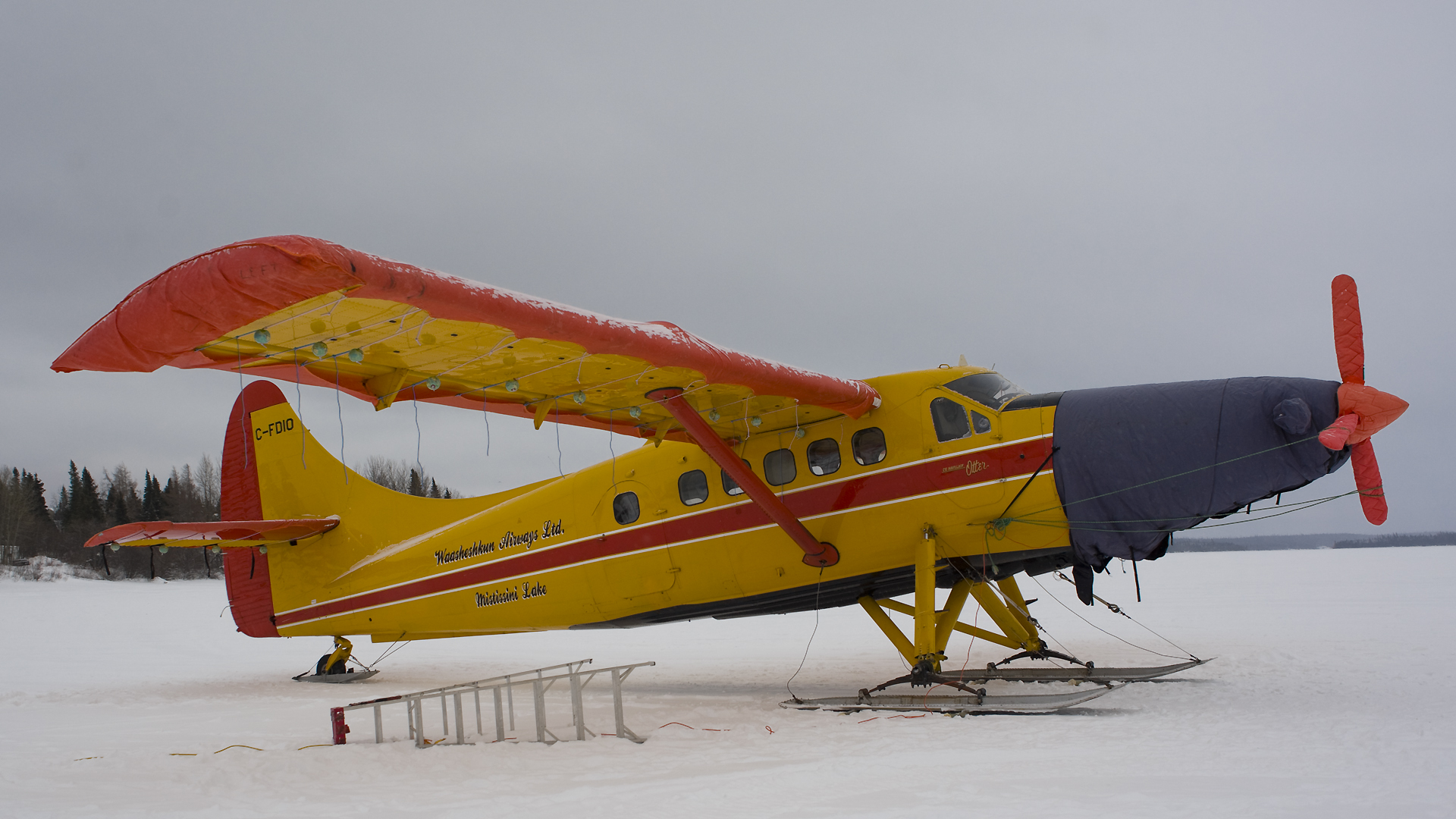 "Otter" aircraft bundled up to sleep outdoors, on Mistassini lake, Mistissini, Quebec.